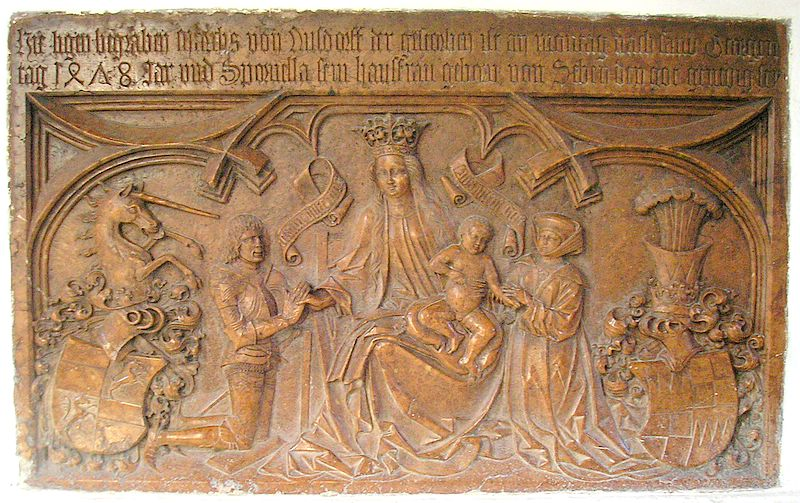 Parish and collegiate church of Our Lady (Laufen an der Salzach, Landkreis Berchtesgadener Land, Upper Bavaria, Germany). Epitaph of Marx von Nussdorf and his wife Spornella von Seben (around 1479).